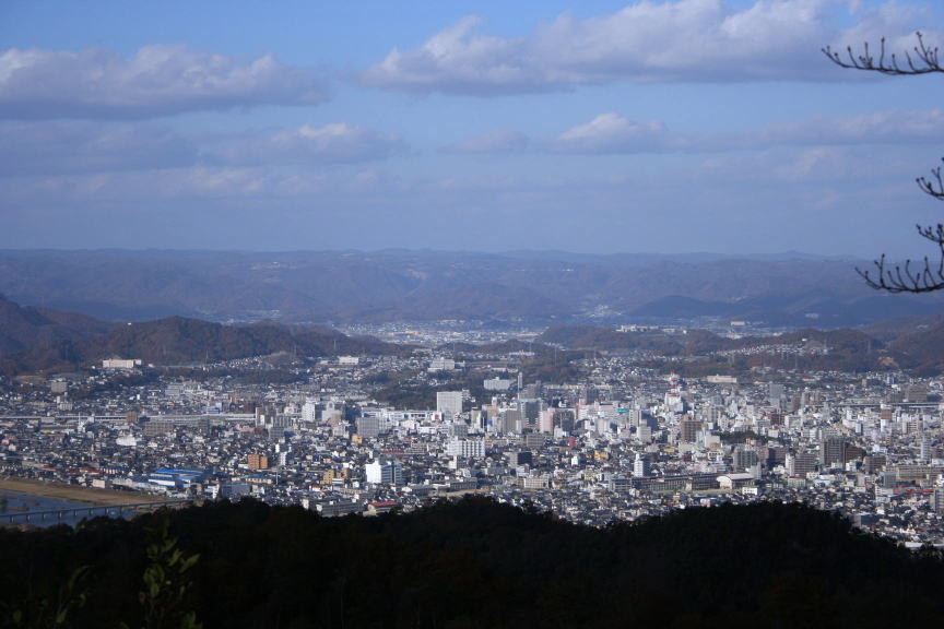 Fukuyama City photo by Lanbea